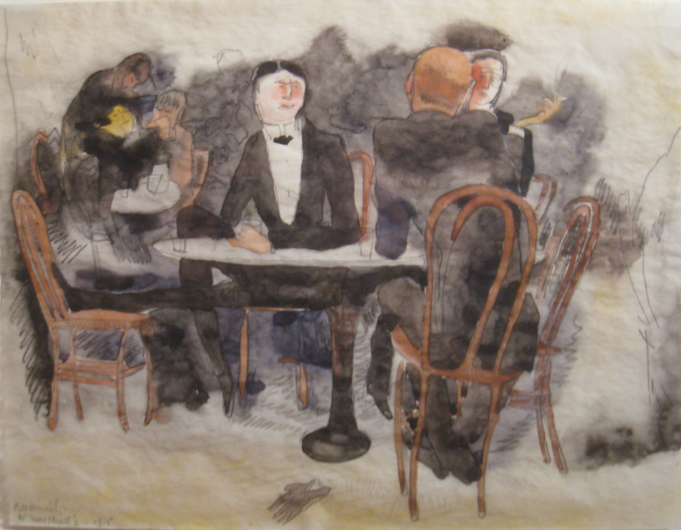 Charles Demuth - At Marshall's, 1915. Exhibited in the Charles Demuth house museum, Lancaster, Pennsylvania, USA. Museum caption states that the image portrays Marcel Duchamp, Edward Fisk, and Marsden Hartley. There were no prohibitions on photography in the museum, and the original artwork is old enough to be in the public domain. I took this photograph.